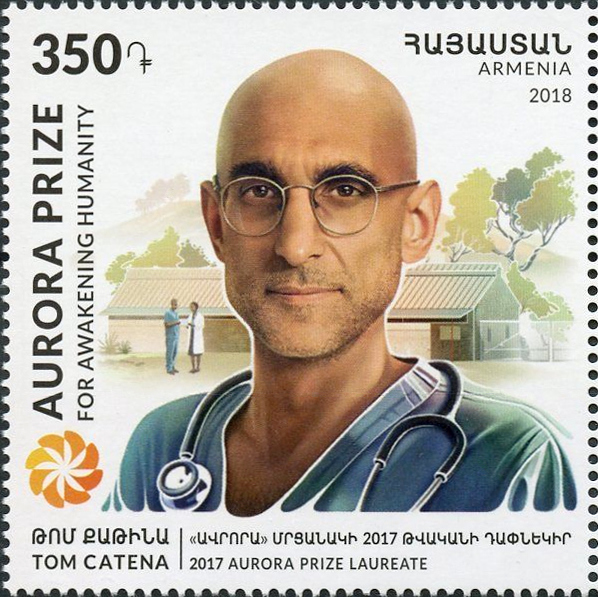 Aurora humanitarian initiative. Laureates of “Aurora” prize. Tom Catena